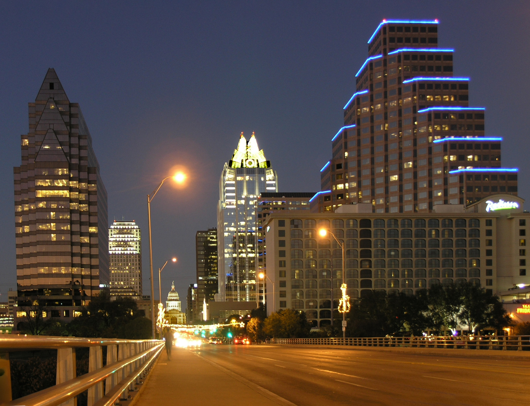 Image of Austin, Texas